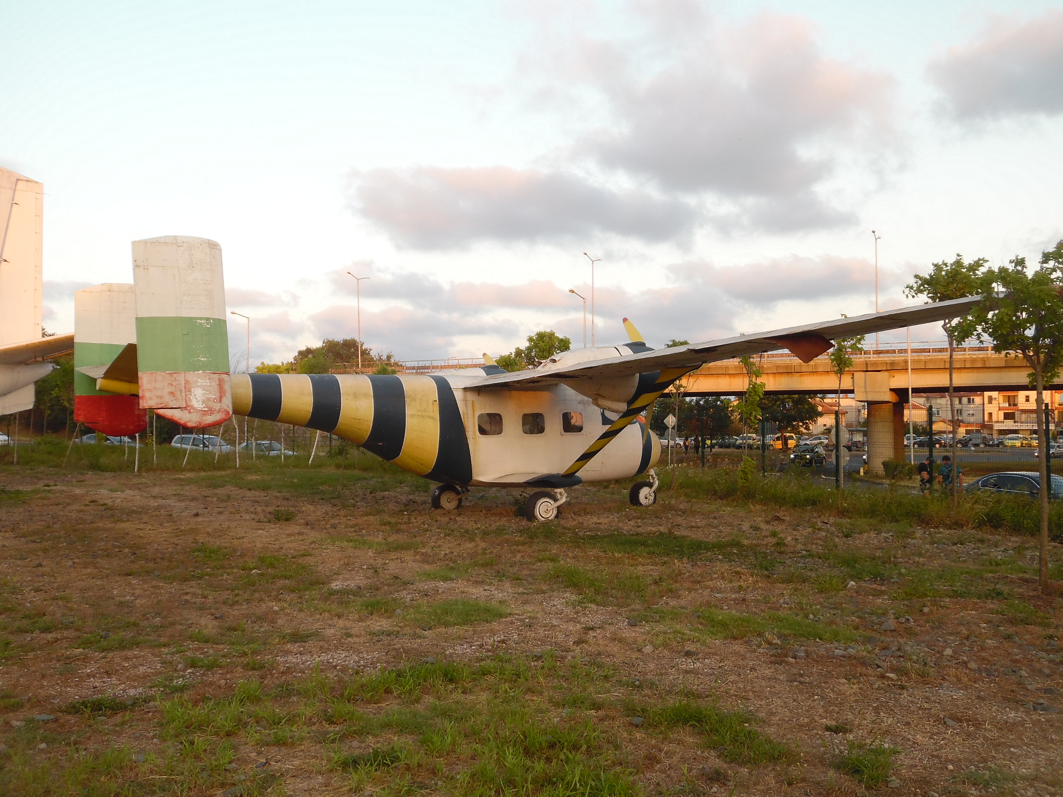 AN-14 in the Aviation Museum of South Bulgaria